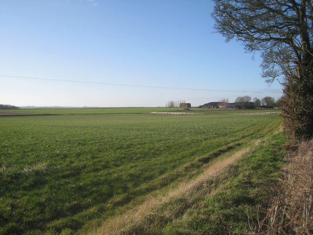 View towards Beesby Grange